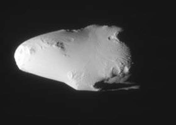 Cassini narrow-angle camera raw image N00151485.jpg was taken on February 13, 2010 and received on Earth February 14, 2010. The camera was pointing toward CALYPSO, and the image was taken using the CL1 and GRN filters. This image has not been validated or calibrated. A validated/calibrated image will be archived with the NASA Planetary Data System in 2011. The original NASA image has been modified by cropping, doubling the linear pixel density and sharpening.